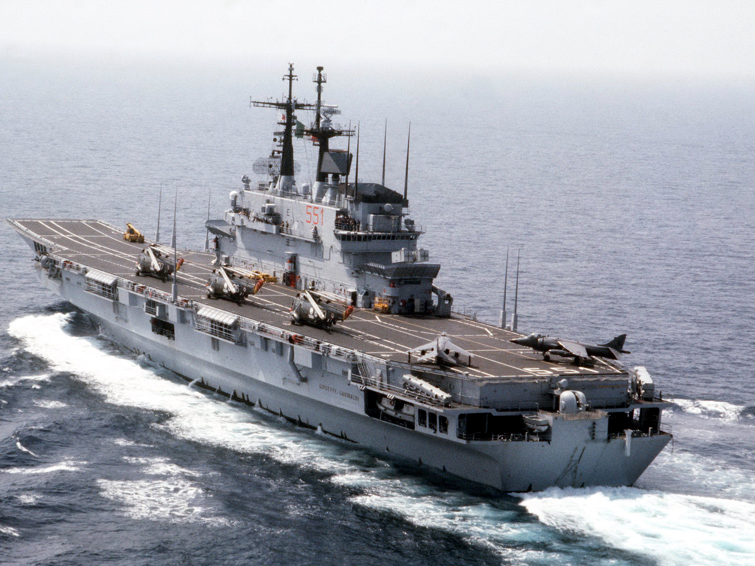 DRAGON HAMMER `90 A port quarter view of the Italian light aircraft carrier ITS GIUSEPPE GARIBALDI (C-551) underway during the NATO Southern Region exercise DRAGON HAMMER '90.